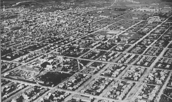 Bird's Eye View of Toyohara (present-day Yuzhno-Sakhalinsk)